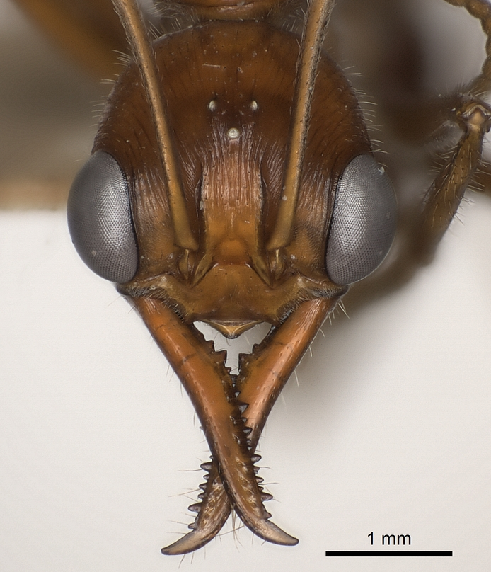 M. regularis front view